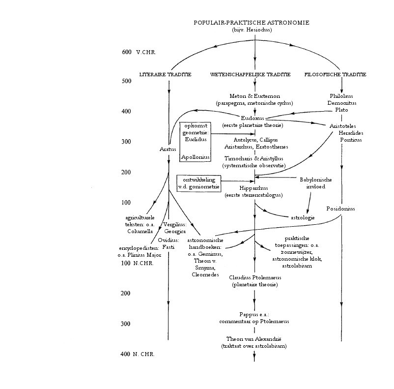 Development of Ancient Greek Astronomy. Based on J. Evan, 'The History and Practise of Ancient Astronomy', New York: Oxford University Press, 1998, blz. 18.